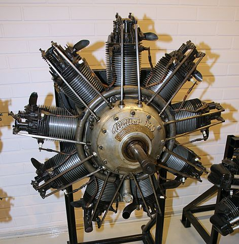 471 × 480 pixels lower res image of the original image: A Walter NZ-120 in the Aviation Museum of Central Finland.